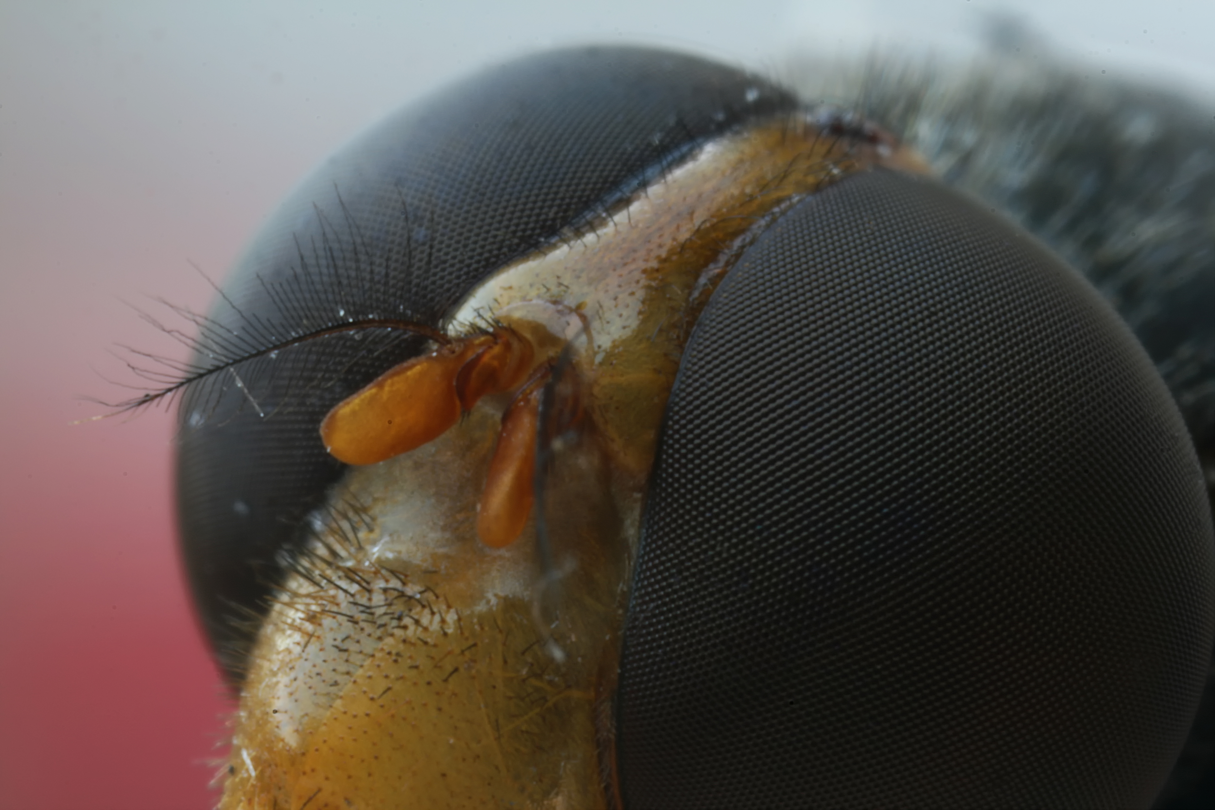 Description: Volucella pellucens is a hover-fly. It occurs in much of Europe, and across Asia to Japan.